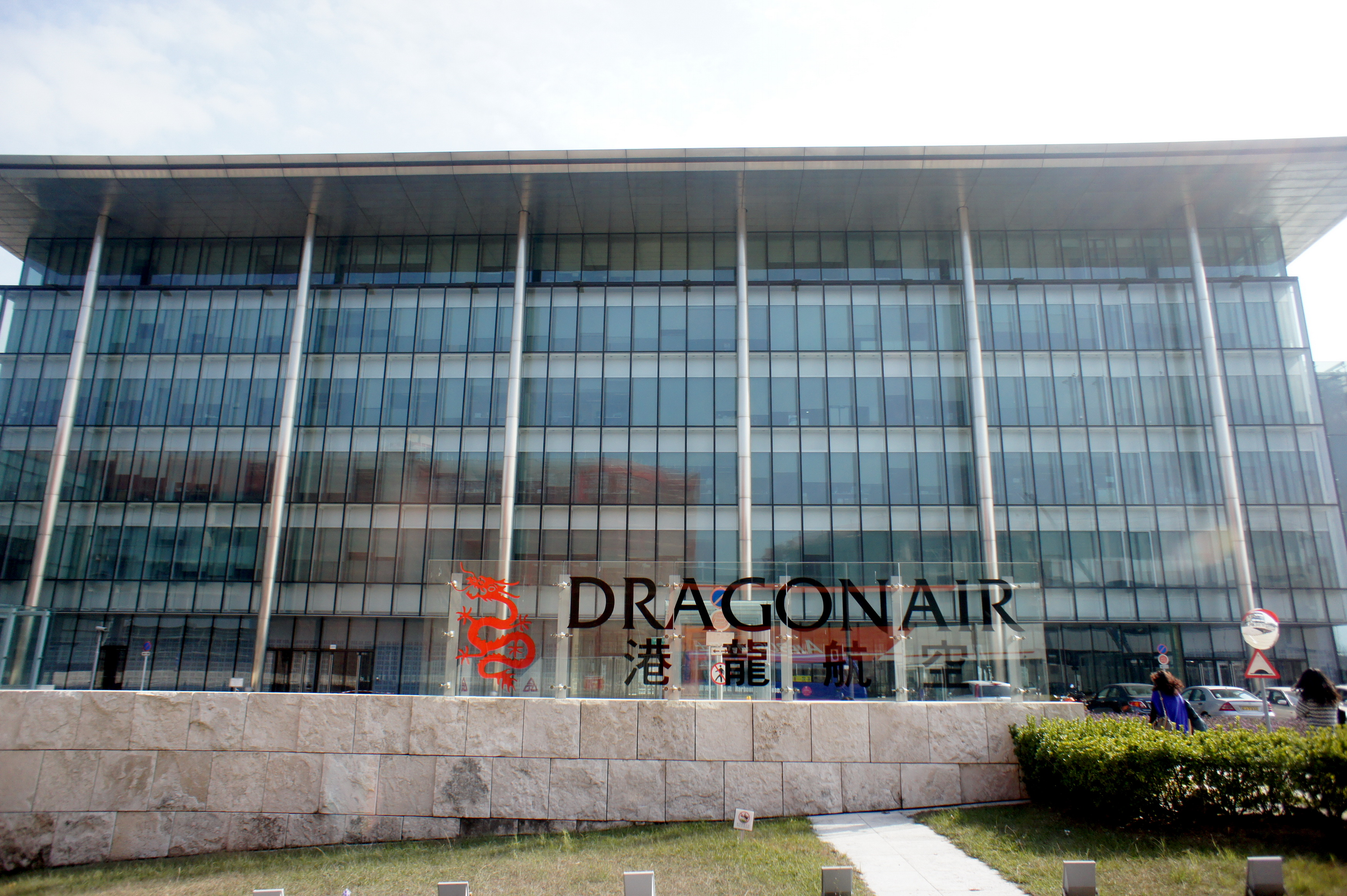 Dragonair House at Chek Lap Kok, Hong Kong. It was officially opened by the Chief Executive of the Hong Kong SAR, Tung Chee Hwa, on 14 December, 2000.